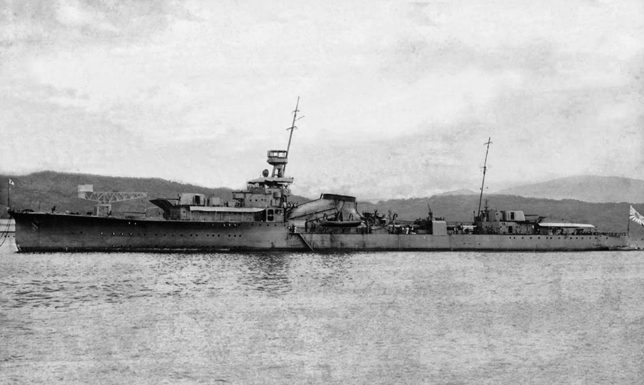 The japanese light cruser Yubari on the day of her commissioning. Sasebo, 31 july 1923.